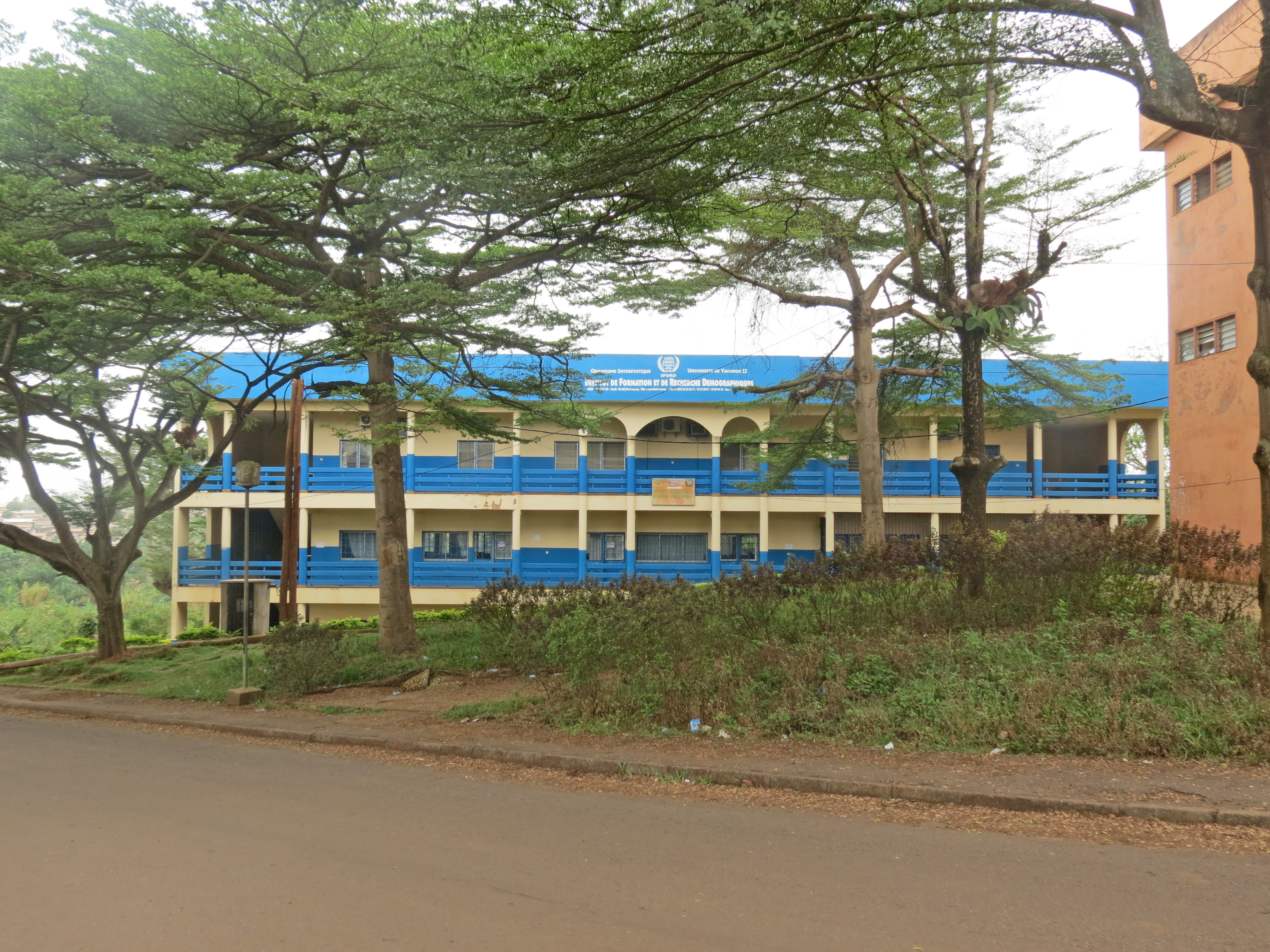 The UN Institute for Demographic Research and Training (IFORD) at the campus of Ngoa-Ekelle in Yaoundé.